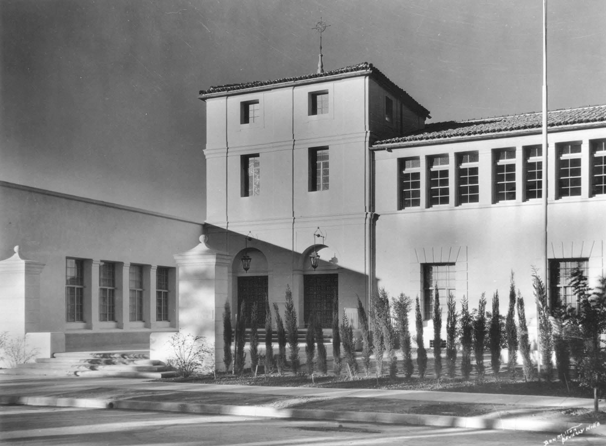 Mount Carmel High School (Los Angeles), Los Angeles Historic-Cultural Monument #214. Spanish revival building built in 1934.